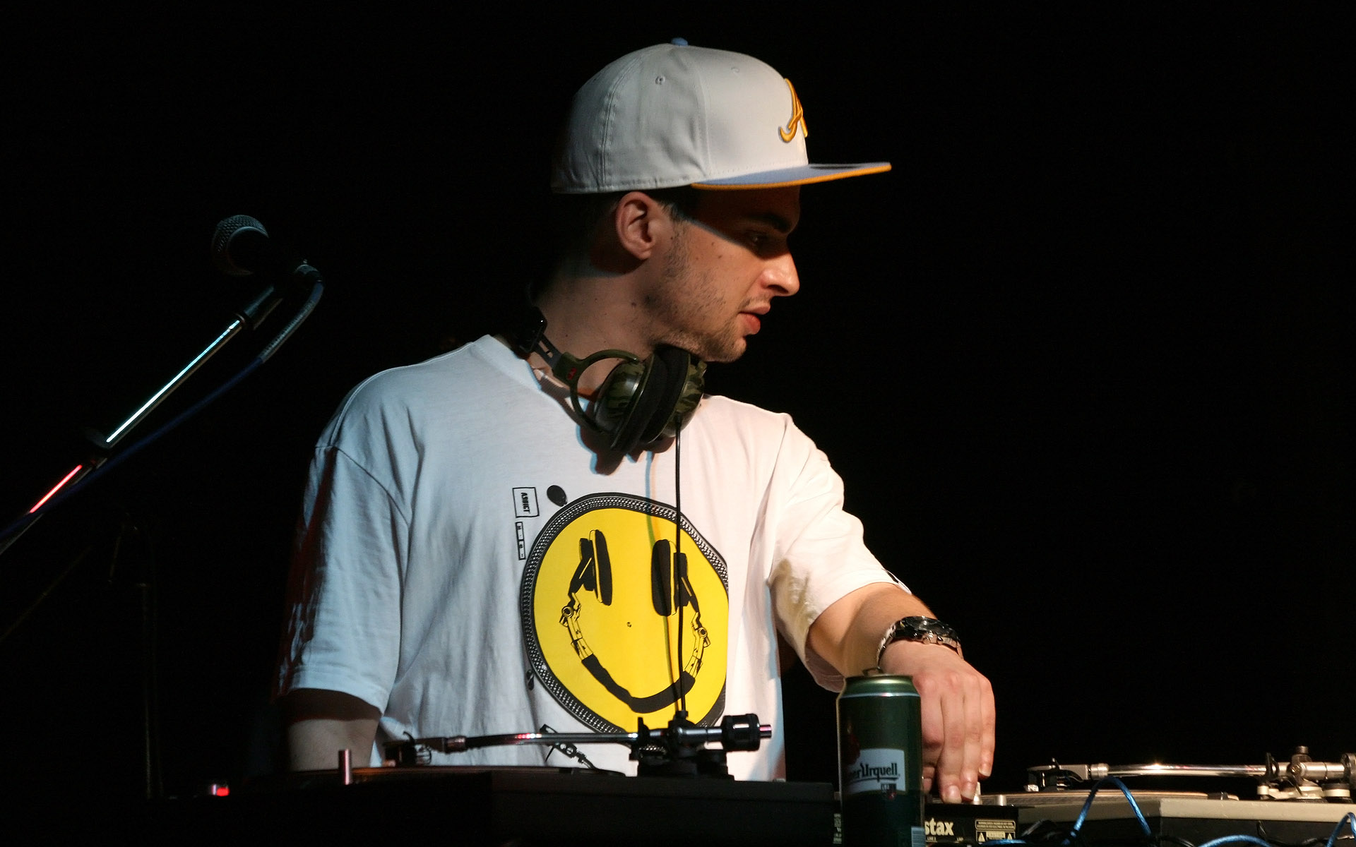 A.geh Wirklich?, Donaukanaltreiben 2012 in Vienna.